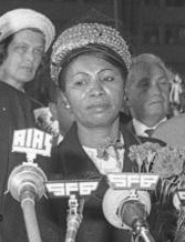 Justine Tsiranana, First Lady of Madagascar, during a 1962 official visit to West Berlin with her husband, President Philibert Tsiranana. Staatsbesuch Madagaskar: Ankunft Berlin-Tempelhof Begrüßung durch Bgm. Brandt